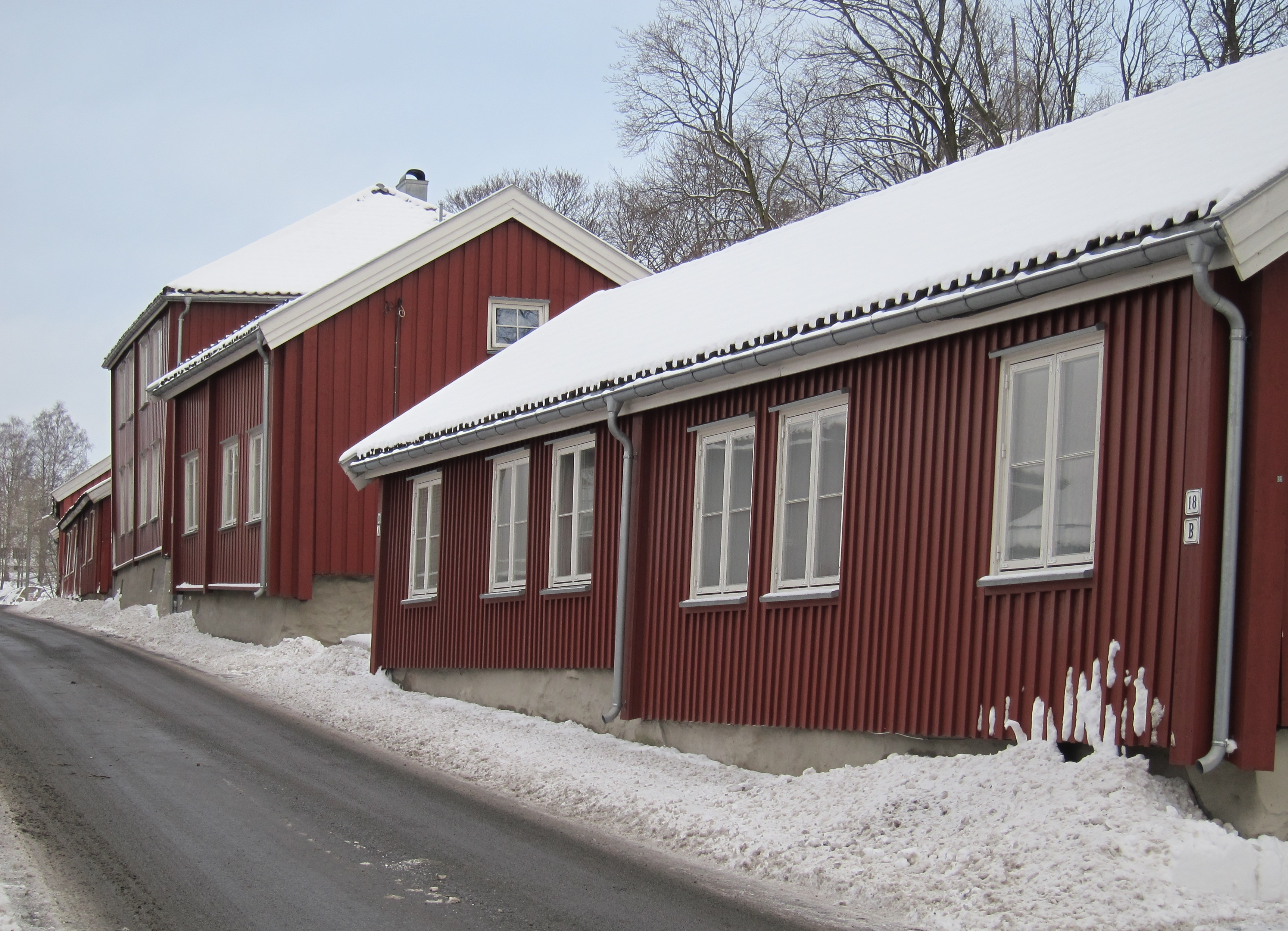 Old wooden house, originally for Moss Ironworks (Moss Jernverk in Norwegian) workers in Moss, Norway. The houses are on the eastern side of the road passing through. The road was in earlier times the main road from Christiania to Gothenburg.